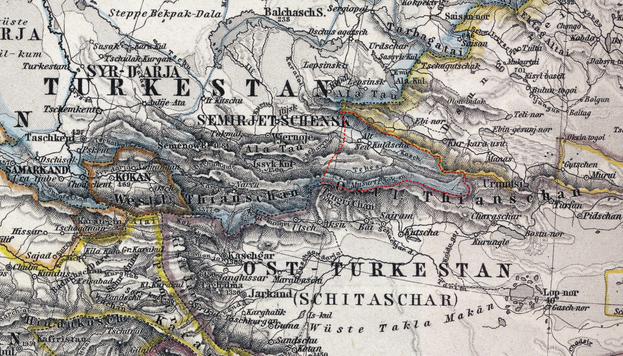 Stielers Hand-Atlas, sheet no. 59, North- & Central-Asia. overview of the Russian Empire (steel engraving) scale 1 : 20.000.000, A. Petermann, (Kuldscha district with red borderline)